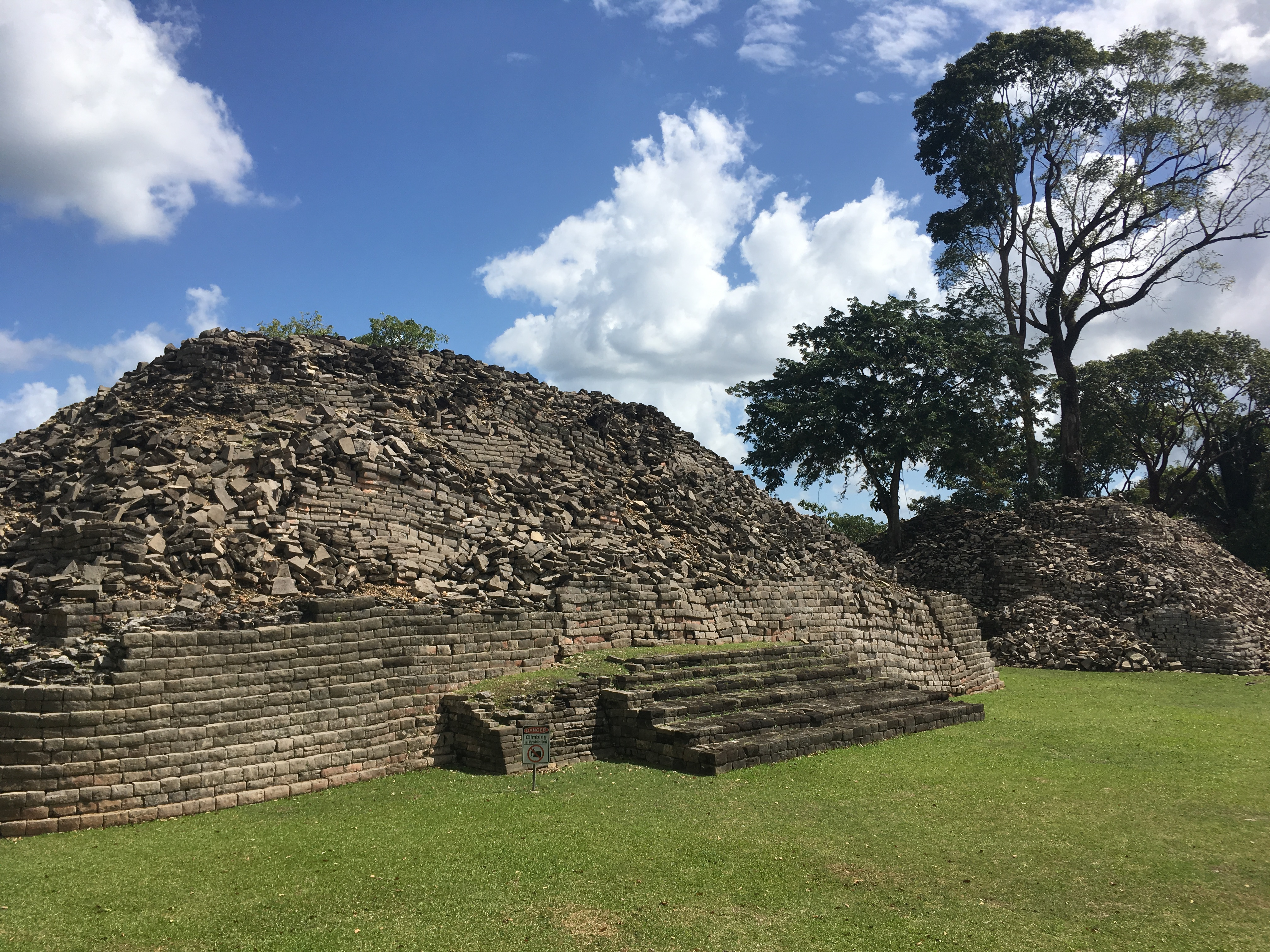 Lubaantun, a Maya archaeological site in Belize